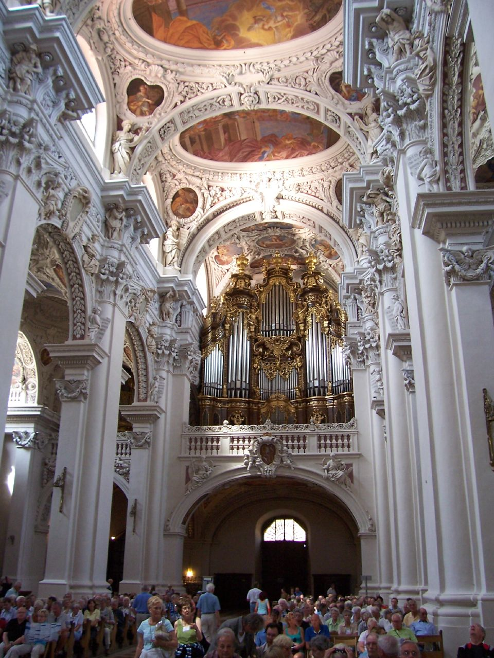 This is just one of five banks of organ pipes. The organ at St. Stephen's is the largest cathedral organ in the world.